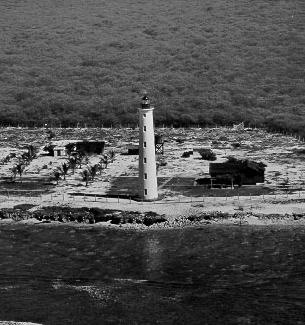 ca. 1936 photograph of Barbers Point Light